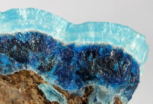 Hemimorphite, Veszelyite Locality: Laochang ore field (Laochang Mine), Eastern Sub-district, Gejiu Sn-polymetallic deposit, Gejiu County, Honghe Autonomous Prefecture, Yunnan Province, China (Locality at ) Size: 5.5 x 3.6 x 1.8 cm. An exceptional and lovely specimen of beautiful lustrous robin's-egg blue Hemimorphite, overlaying a layer of vitreous deep blue Veszelyite. The Veszelyite is notable in its own right, but to have it in such an aesthetic combination with the Hemimorphite is quite remarkable. Small find of a few years ago. Ex. Charlie Key.